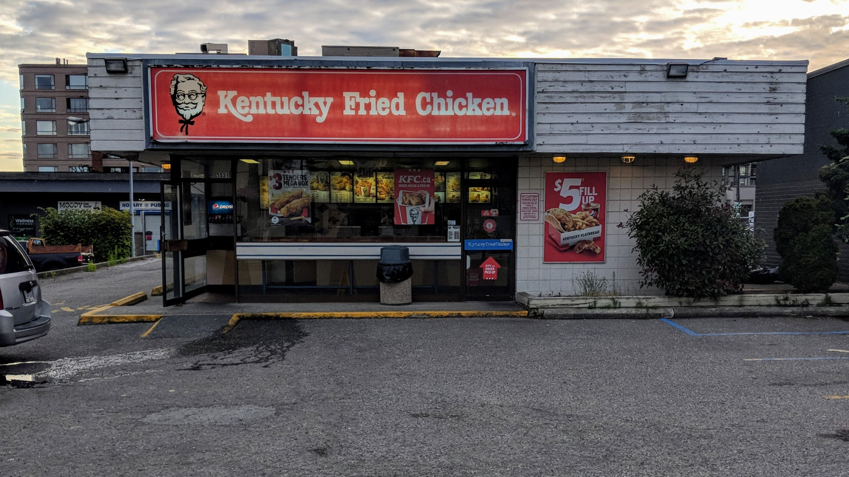 KFC in White Rock, British Columbia, Canada. This particular location was built in 1970 and is often referred to as the "ghetto of White Rock" as it has so far managed to survive decades of gentrification. Photo taken in July 2019.